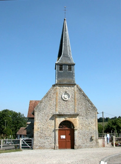 Front of the church of Saint-Georges-en-Auge (Calvados, France).